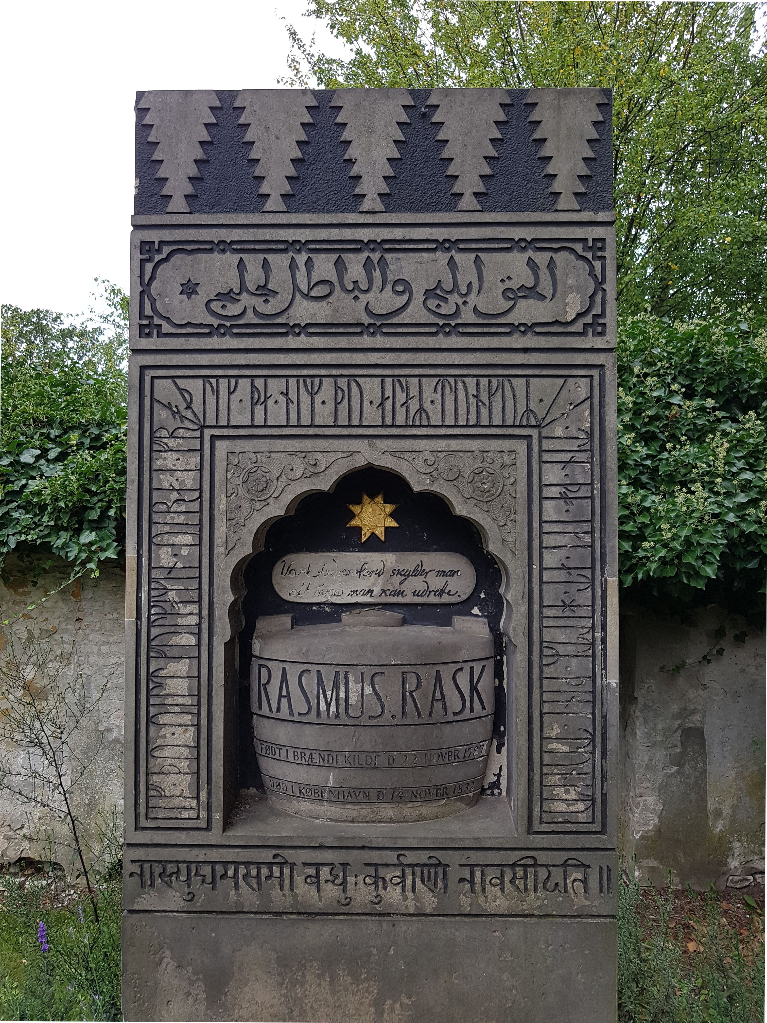 Tombstone of the linguist Rasmus Rask (1787–1832) in the Assistens Cemetery in Copenhagen, Denmark.